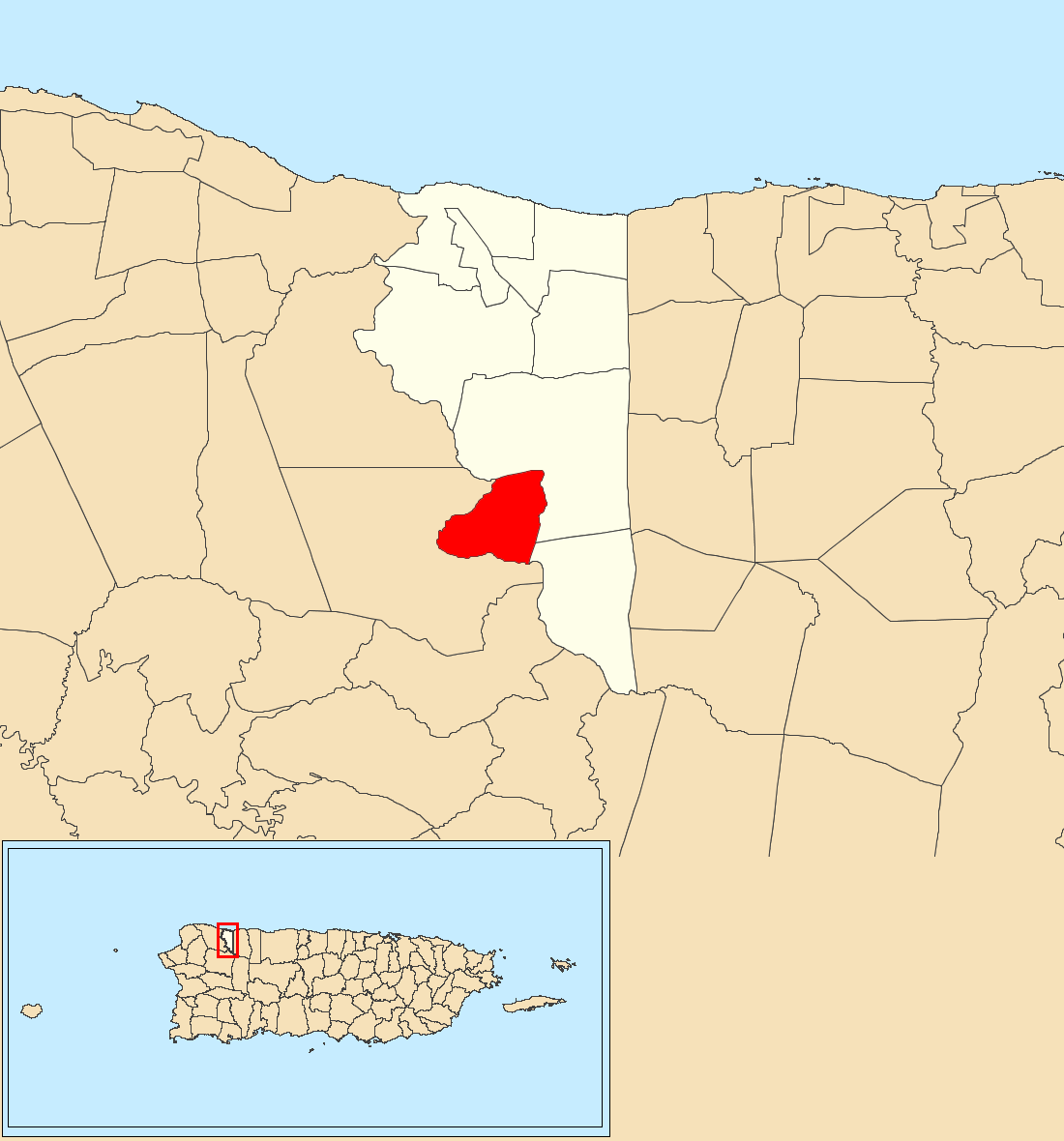 Charcas, Quebradillas, Puerto Rico locator map